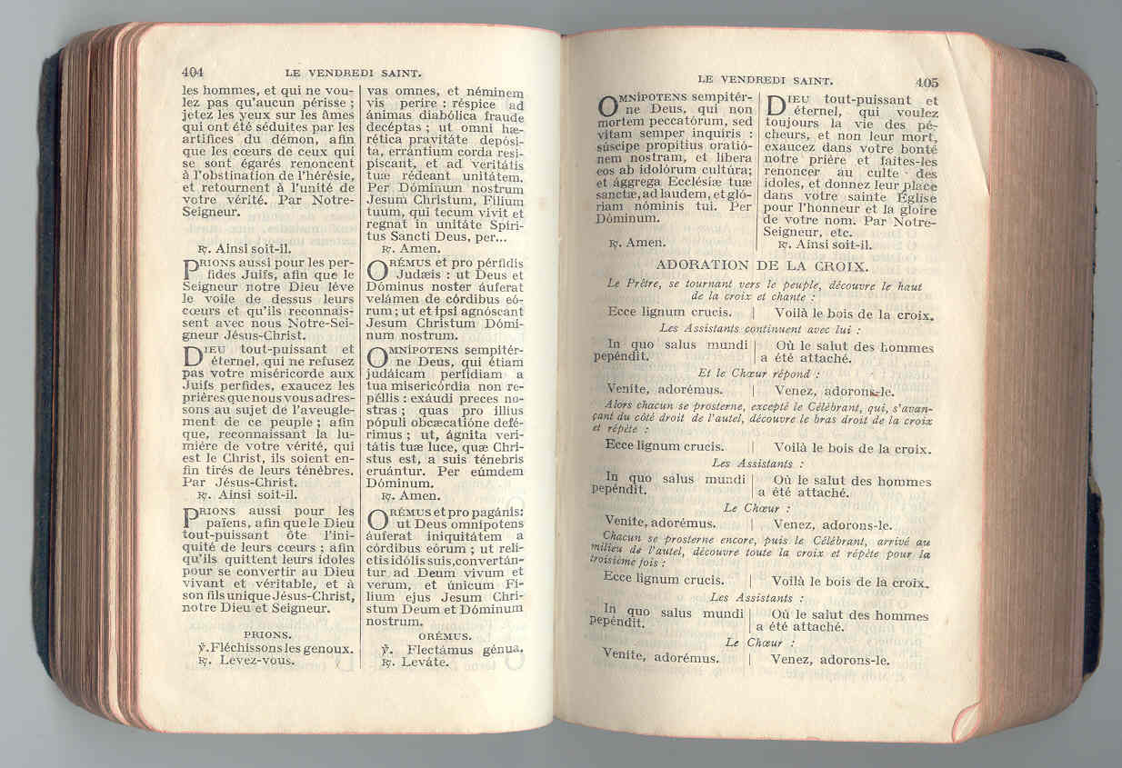 « Oremus et pro perfidis Judaeis » Good Friday prayer for the Jews in Latin and French, from a French Catholic Liturgy.